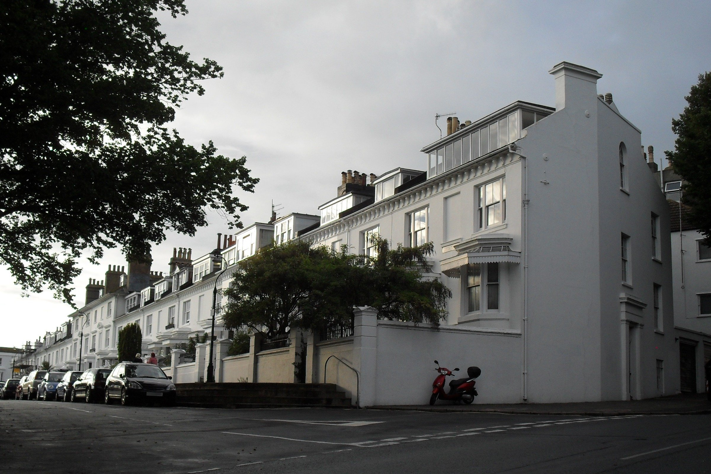 1–23 Clifton Terrace, Brighton, City of Brighton and Hove, England. Listed at Grade II by English Heritage (IoE Code 480524)